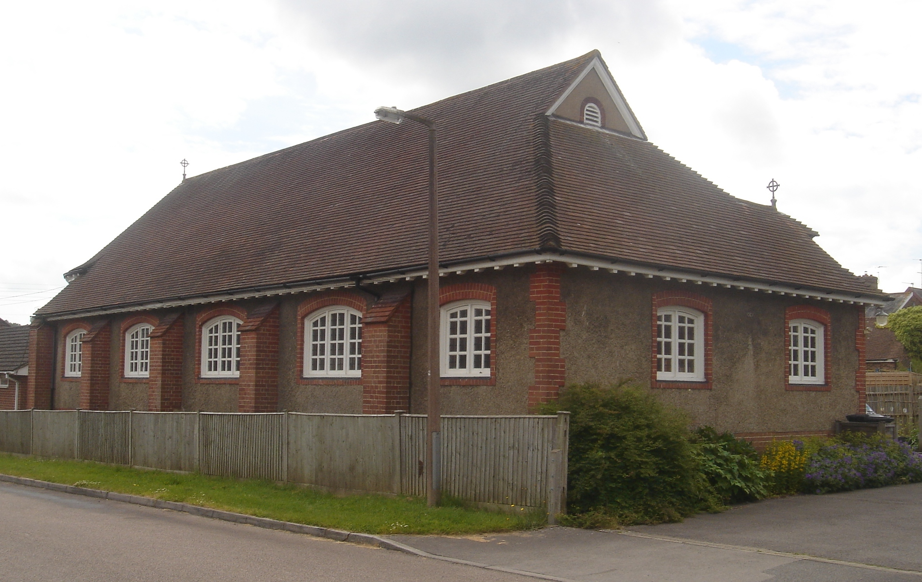 Church of the Presentation, New England Road, Haywards Heath, District of Mid Sussex, West Sussex, England. Built in 1897.